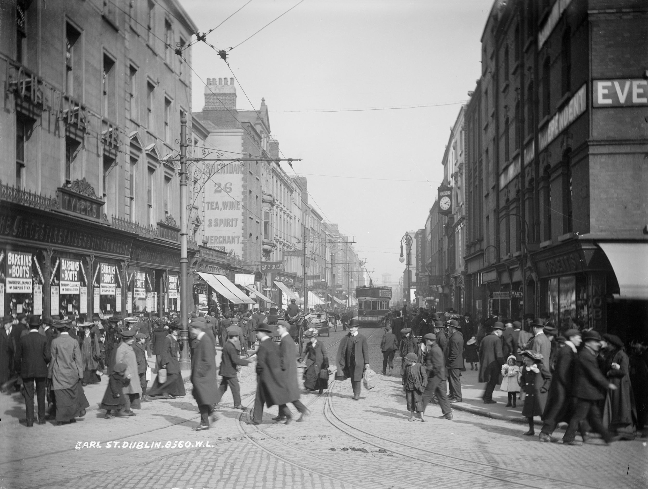 Gorgeous bustling street scene taken at the corner of Earl Street and Sackville Street (now O'Connell Street), that also captures a great array of businesses in turn of the century Dublin. These include: The Sackville Café Hickey & Co. at no. 24 Sheridans Tea, Wine & Spirit Merchant, no. 26 Alexander, no. 27 (Billiards & Pool) Bowe & Co., no. 28 Dominating the foreground is Tylers, "the largest retailers in the world". On the day this photo was taken, they were having a sale to "clear surplus stock", and thanks to Downes clock, we know this photo was taken at 19 minutes past 2. Date: Circa 1900 NLI Ref.: LROY 8560